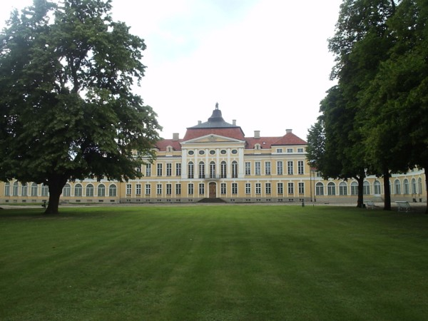 Palace in Rogalin, Poland